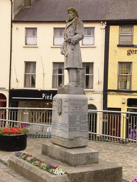 Irish Republican Army Memorial, Athlone